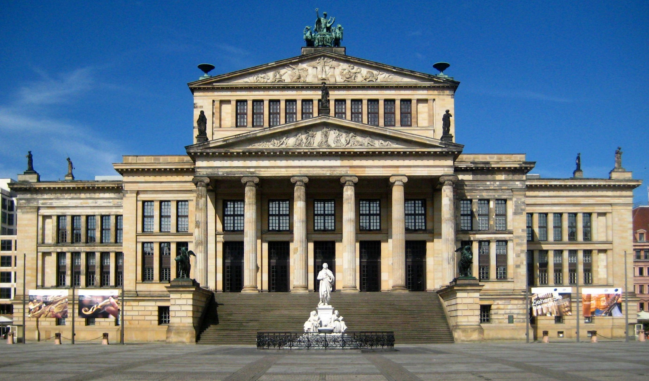 The Concert House at the Gendarmenmarkt in Berlin-Mitte, built 1818 to 1821 by Karl Friedrich Schinkel as Royal Theater.